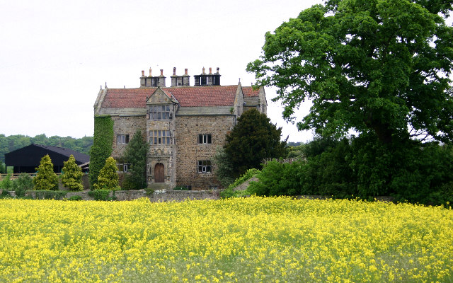 Gainford Hall. A Jacobean Hall in the village of Gainford